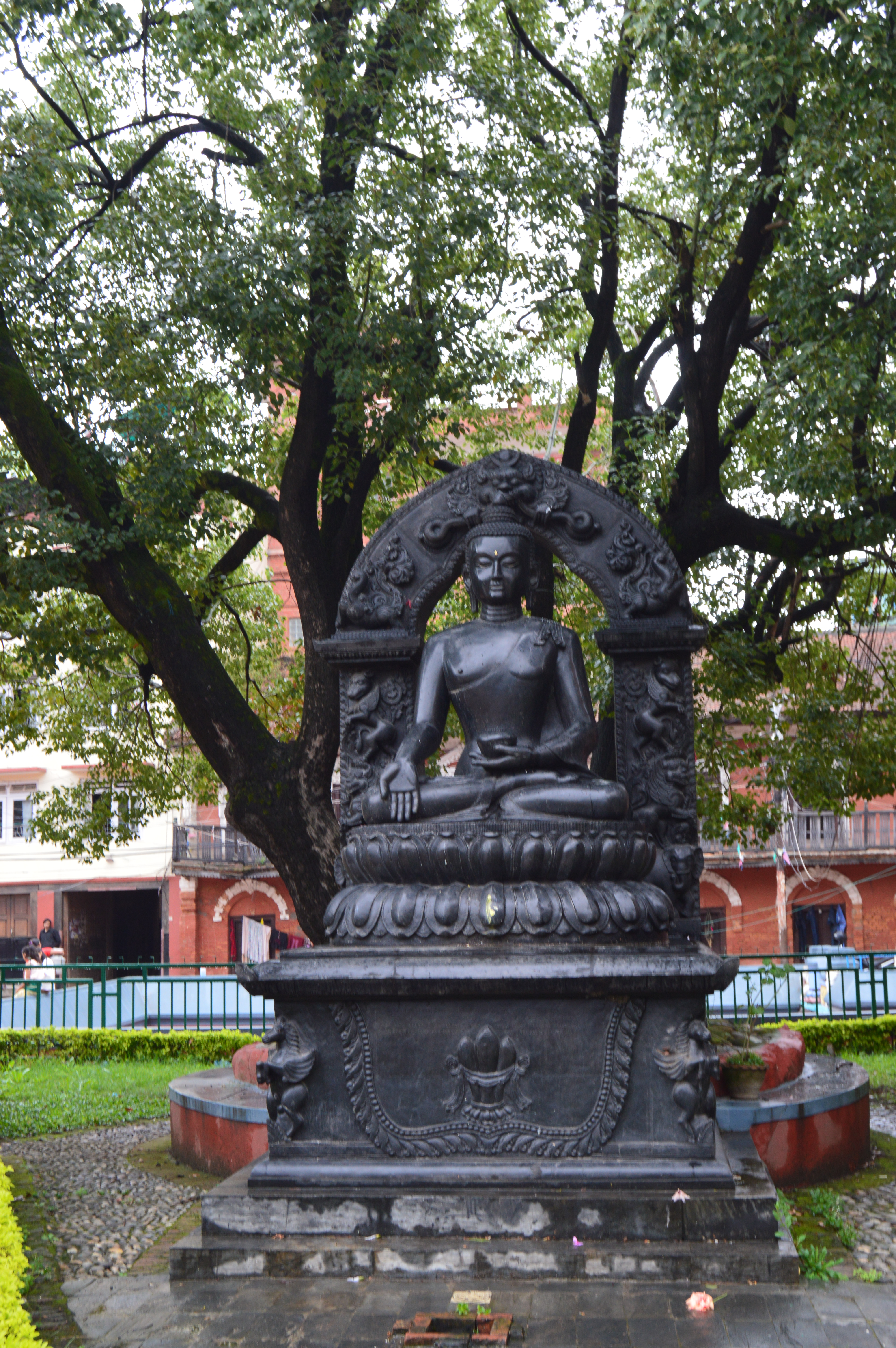 Nag Bahal